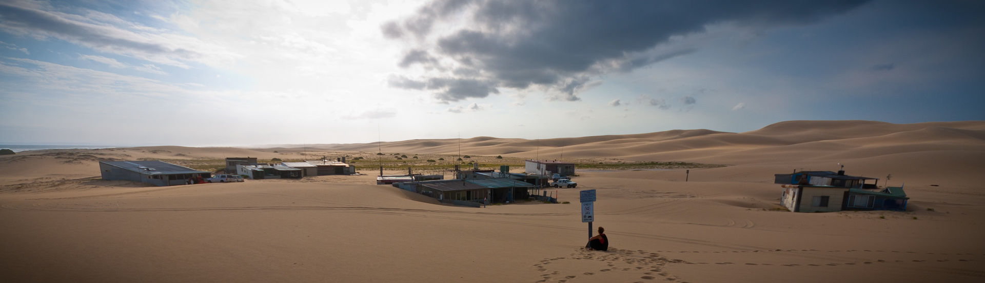 Panoramic view of Tin City, Stockton Beach.